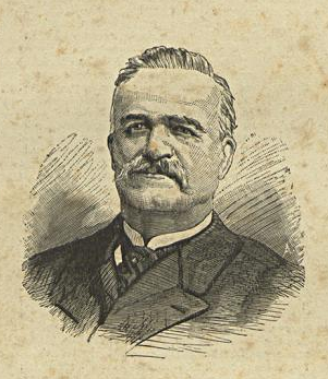 Joaquim Pinto de Magalhães, 1st Count of Arriaga (1819-1892)